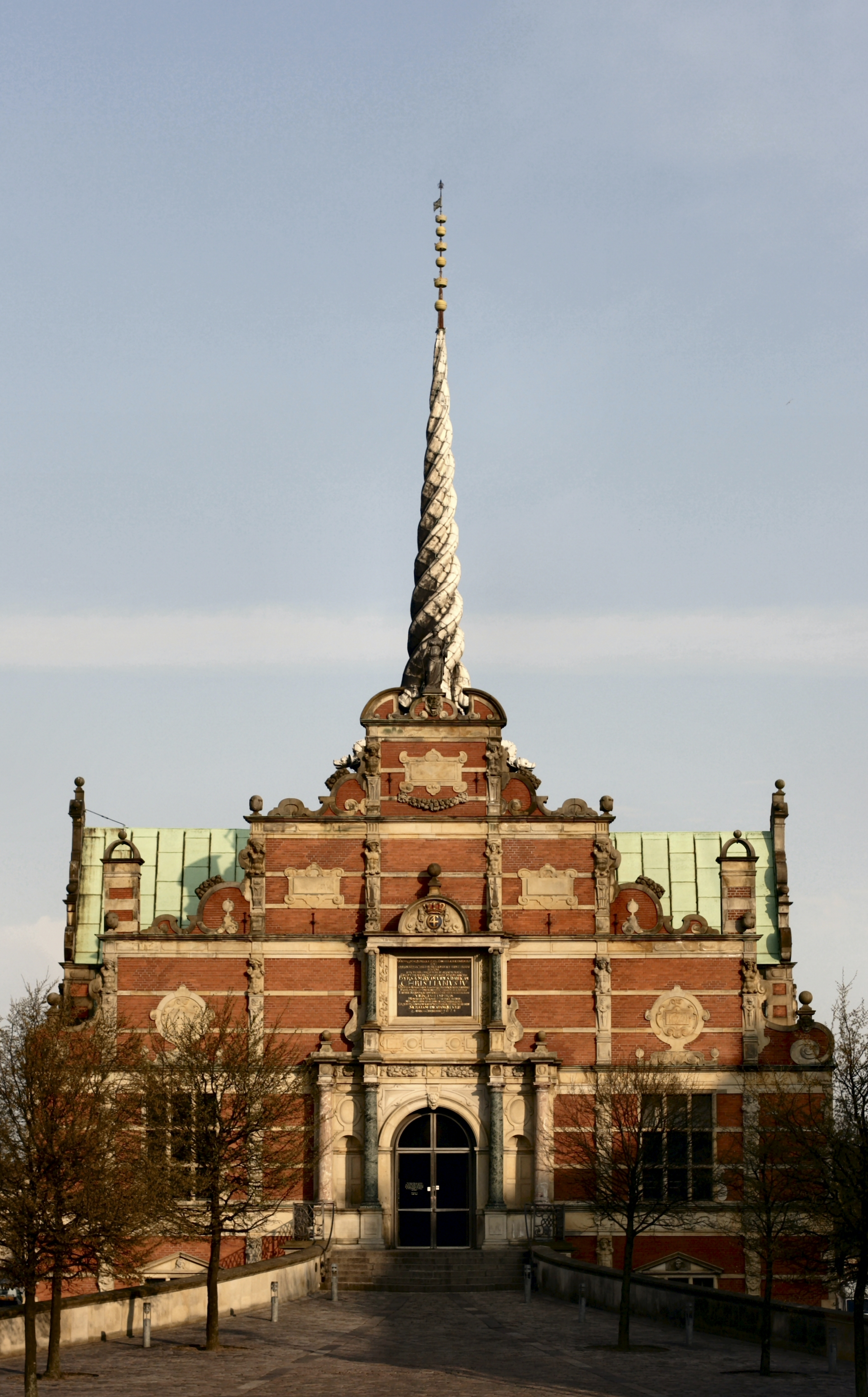 entrance to Børsen